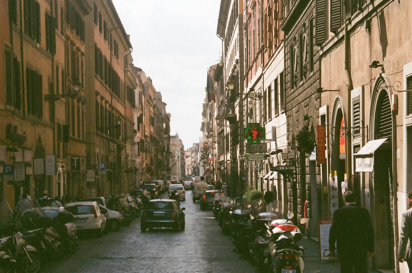 Via Panisperna